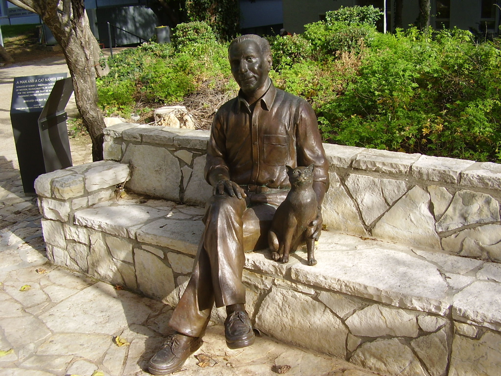 \"a man and a cat called yitz\" in the technion, haifa